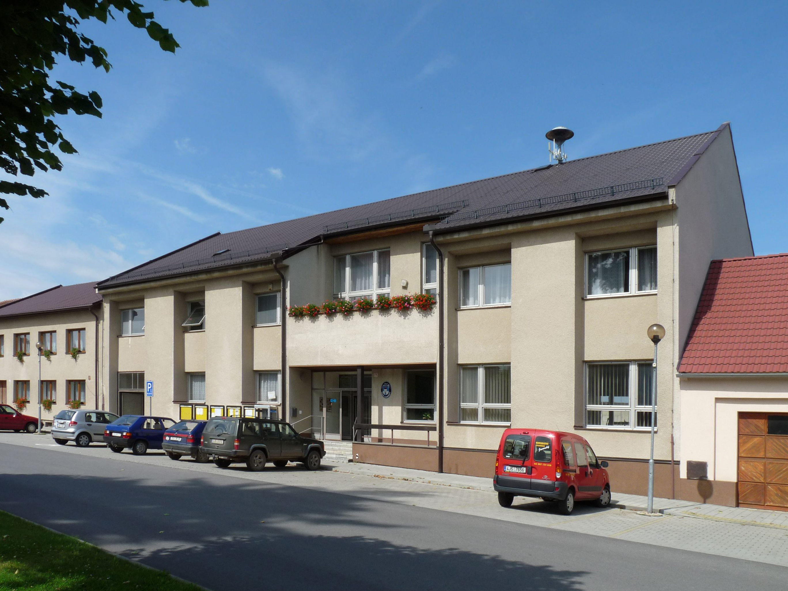 Municipal office building in the market town of Nová Cerekev, Pelhřimov District, Czech Republic.